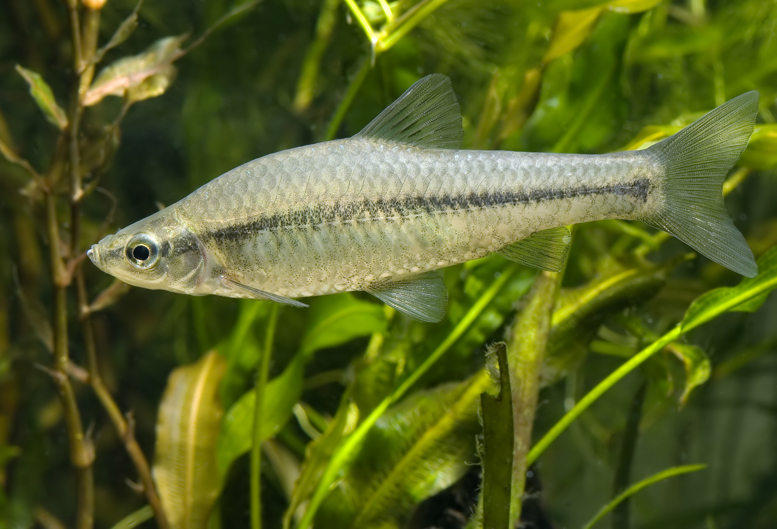 Motsugo(Stone moroko), Pseudorasbora parva, Collected from Hamamatsu, Shizuoka, Japan and later photographed an aquarium.